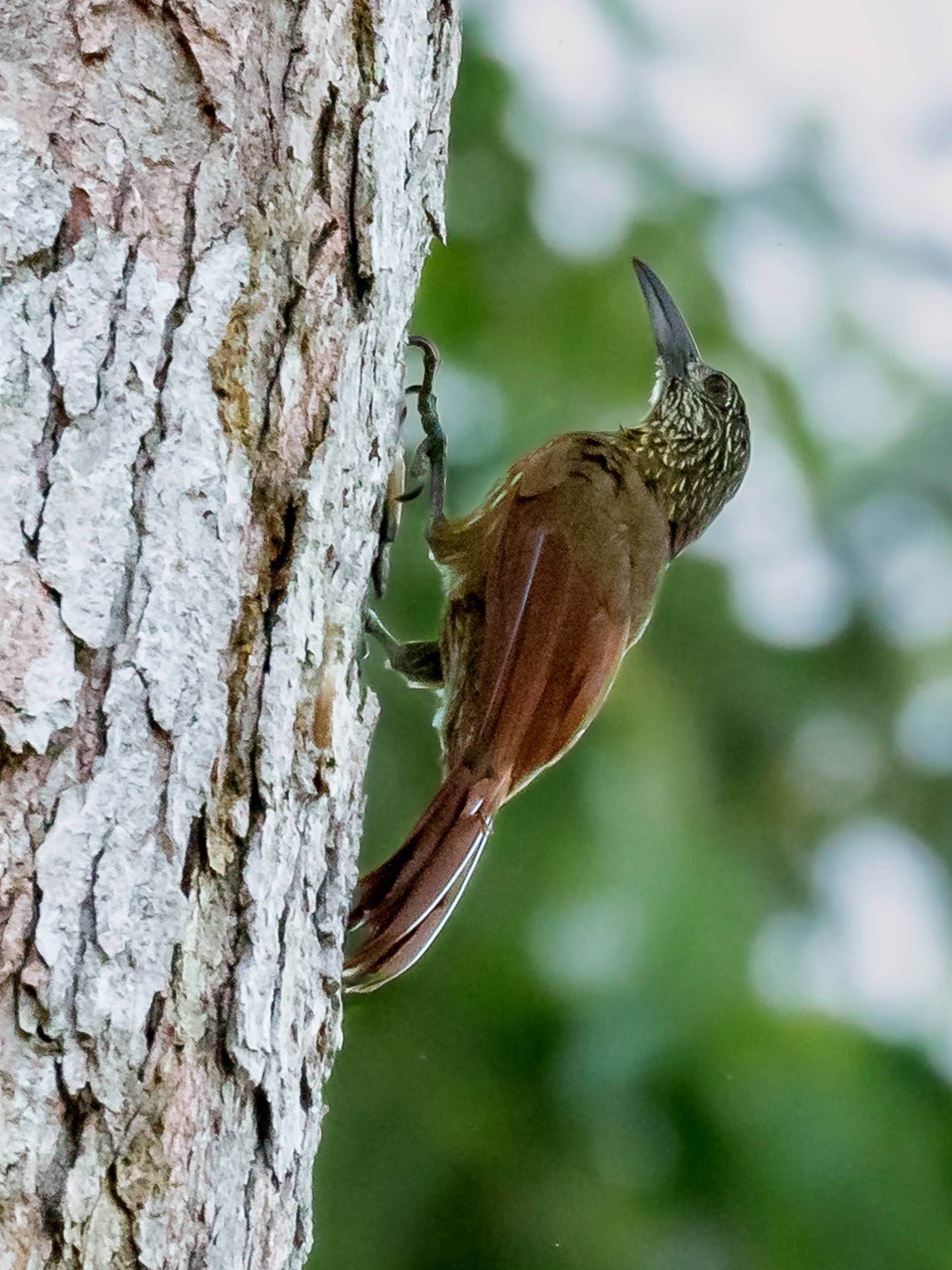 Carajas Woodcreeper; Carajas National Forest, Pará, Brazil